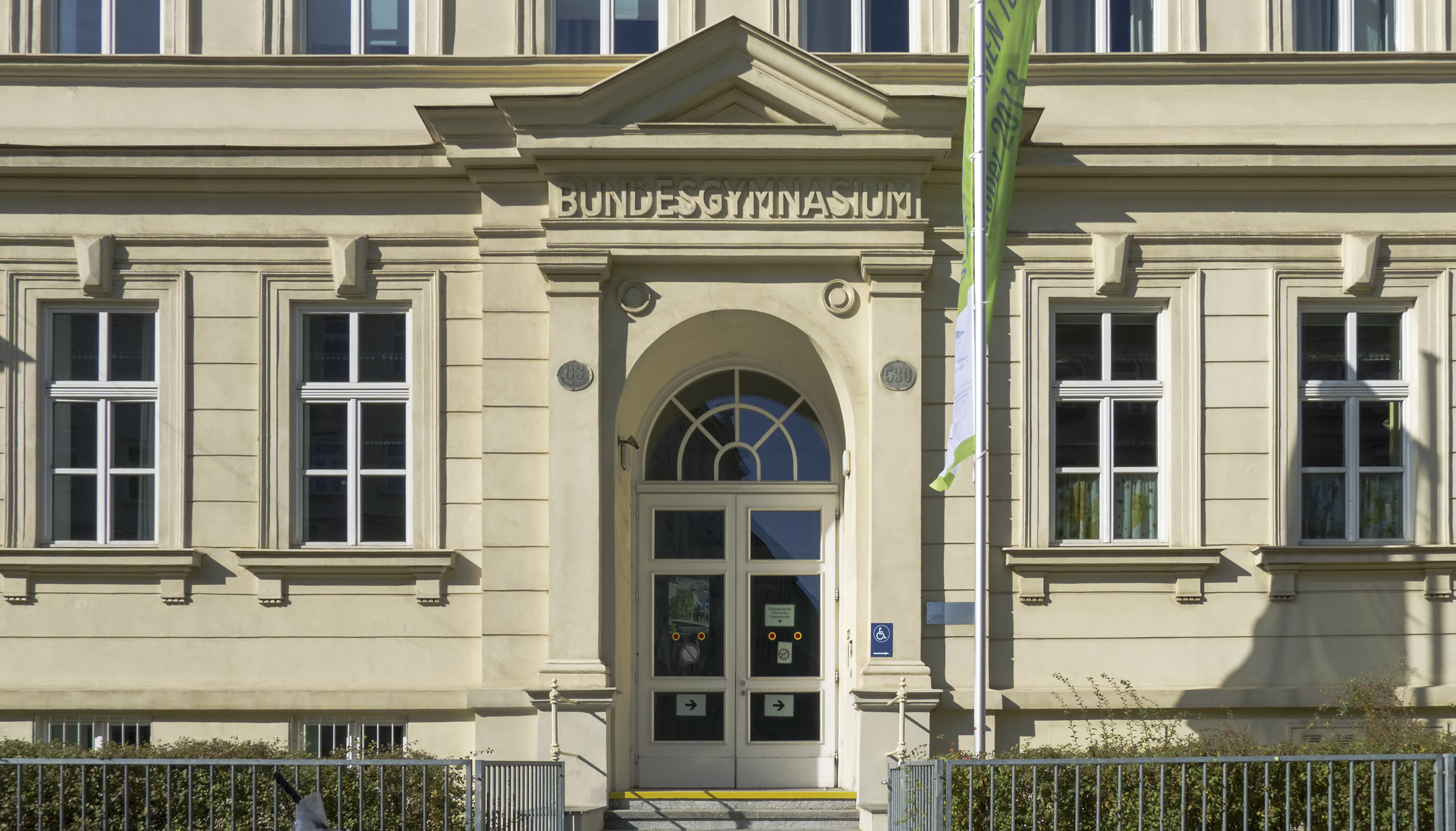 High school Döblinger Gymnasium in Vienna 19